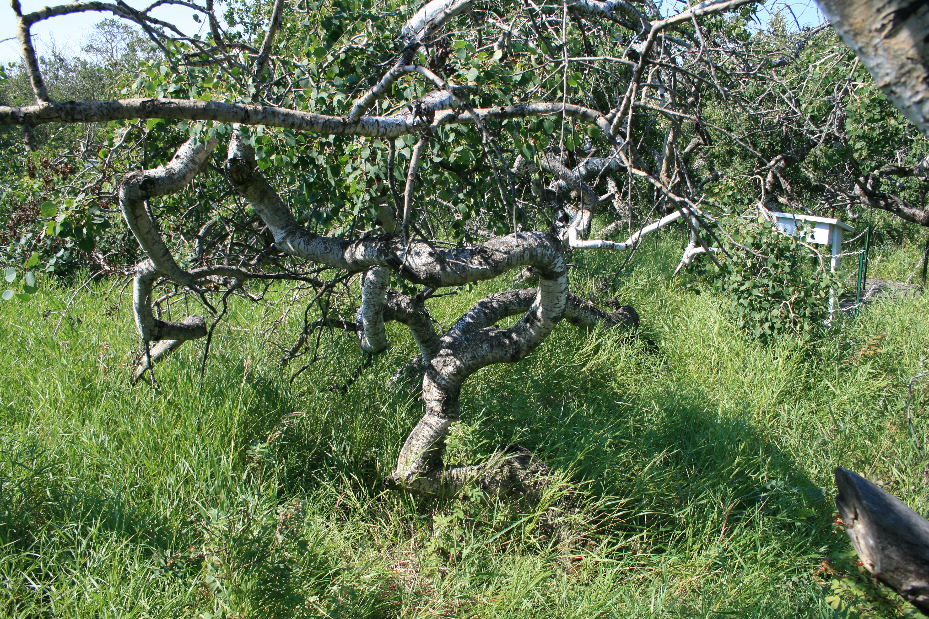 Twisted Aspen tree at Crooked Bush, Saskatchewan.